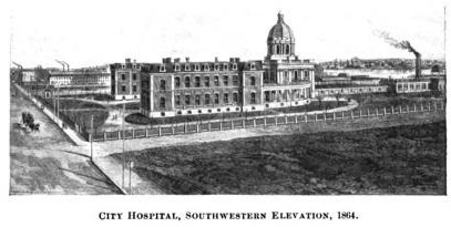 A History of the Boston City Hospital from Its Foundation Until 1904 By Boston City Hospital, David Williams Cheever Published 1906